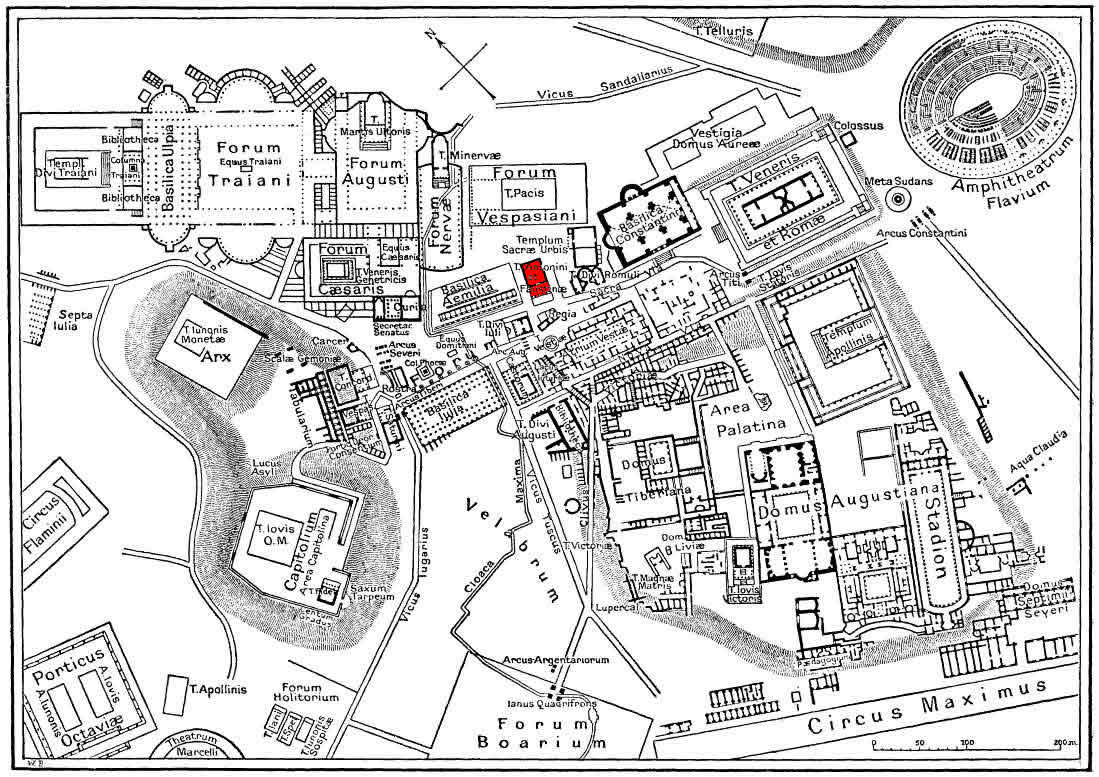 Map of antique downtown Rome, Temple of Antoninus en Faustina is highlited